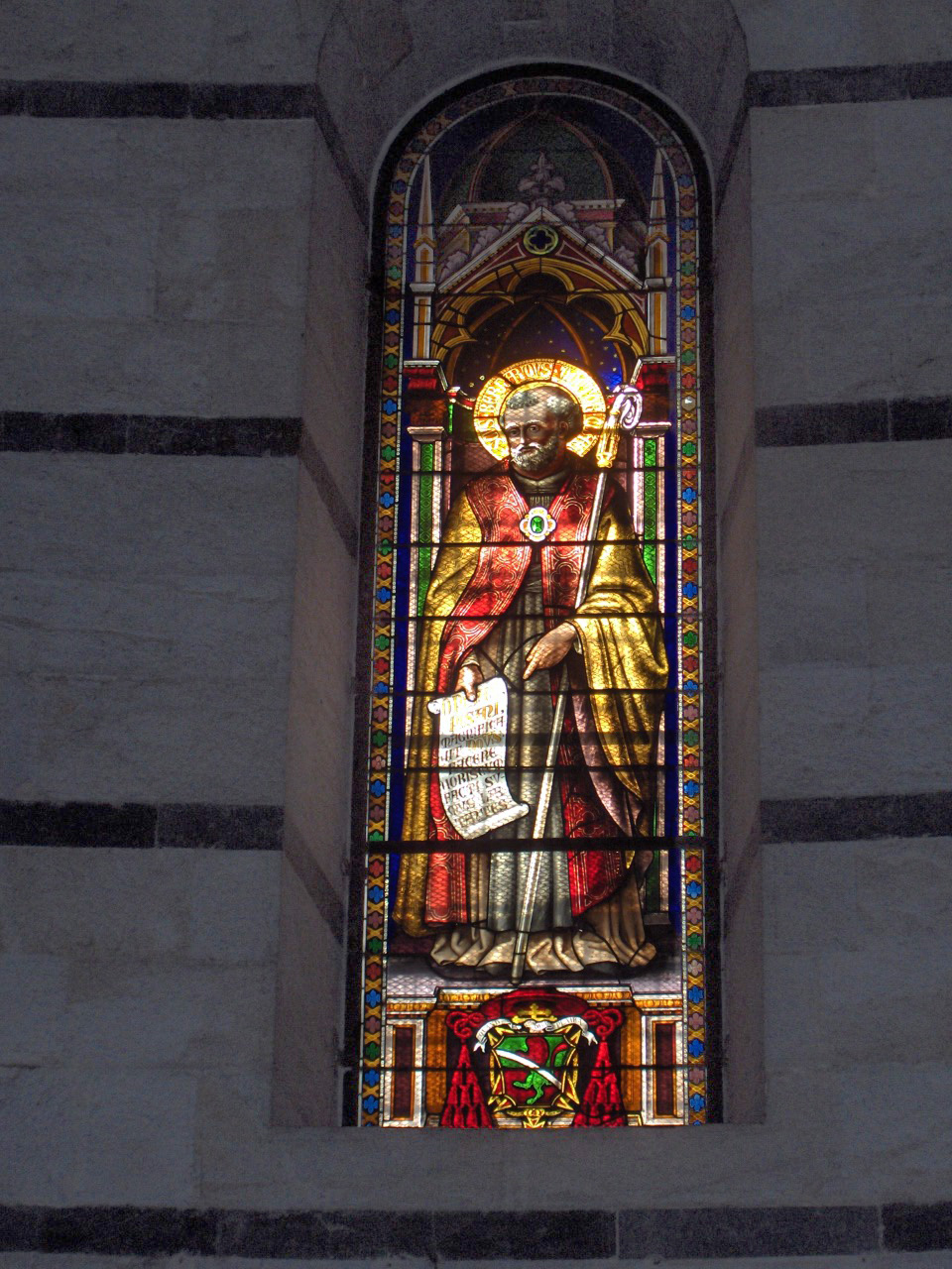 Saint Bernard, stained-glass window by Guglielmo Botti, 1855; Baptistry, Pisa, Italy Photo made by me on 10 October 2005